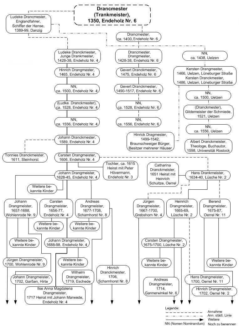 Family tree Drangmeister 1350-1700